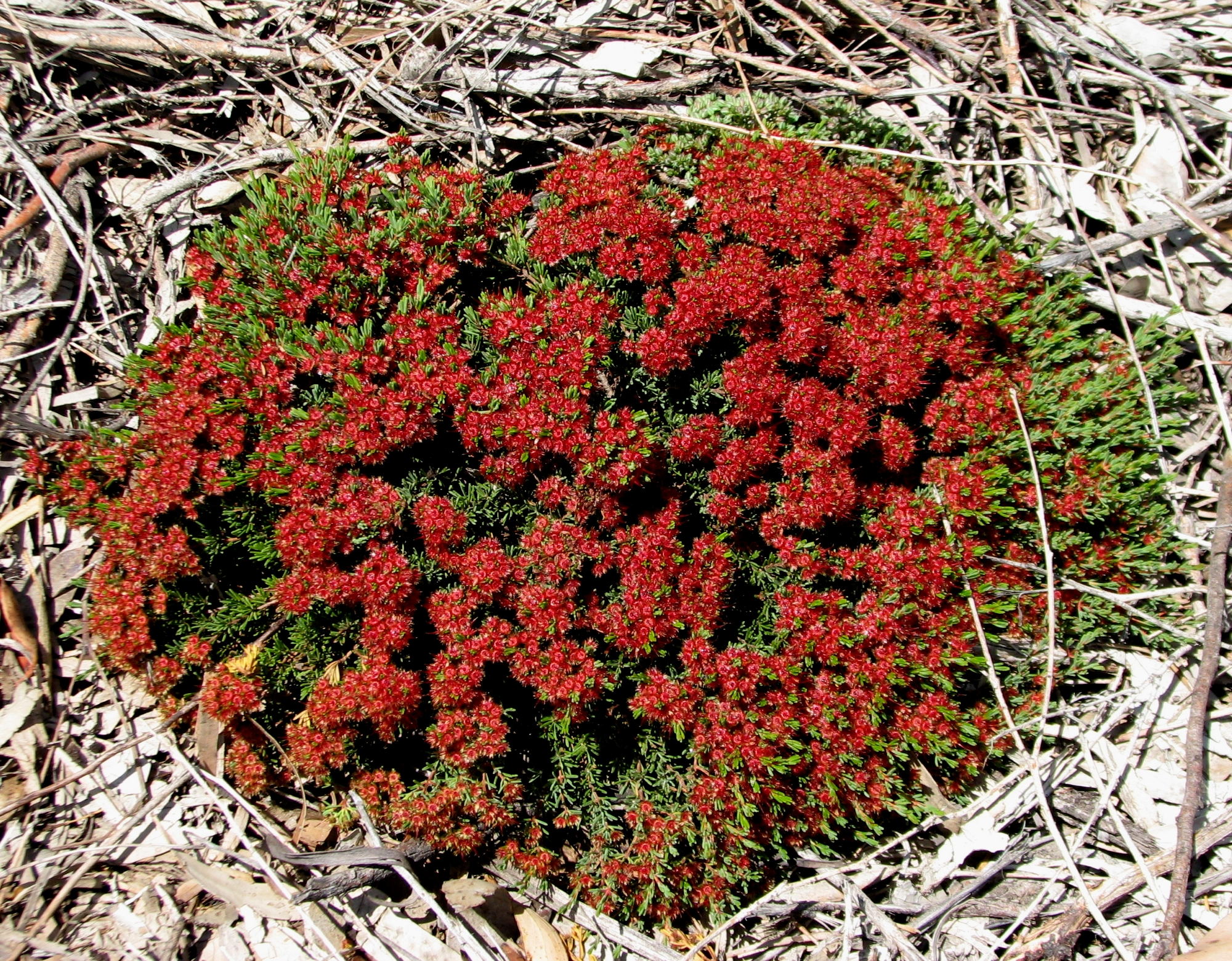 Verticordia fastigiata (cultivated, labelled) , Royal Botanic Gardens Cranbourne, Victoria, Australia